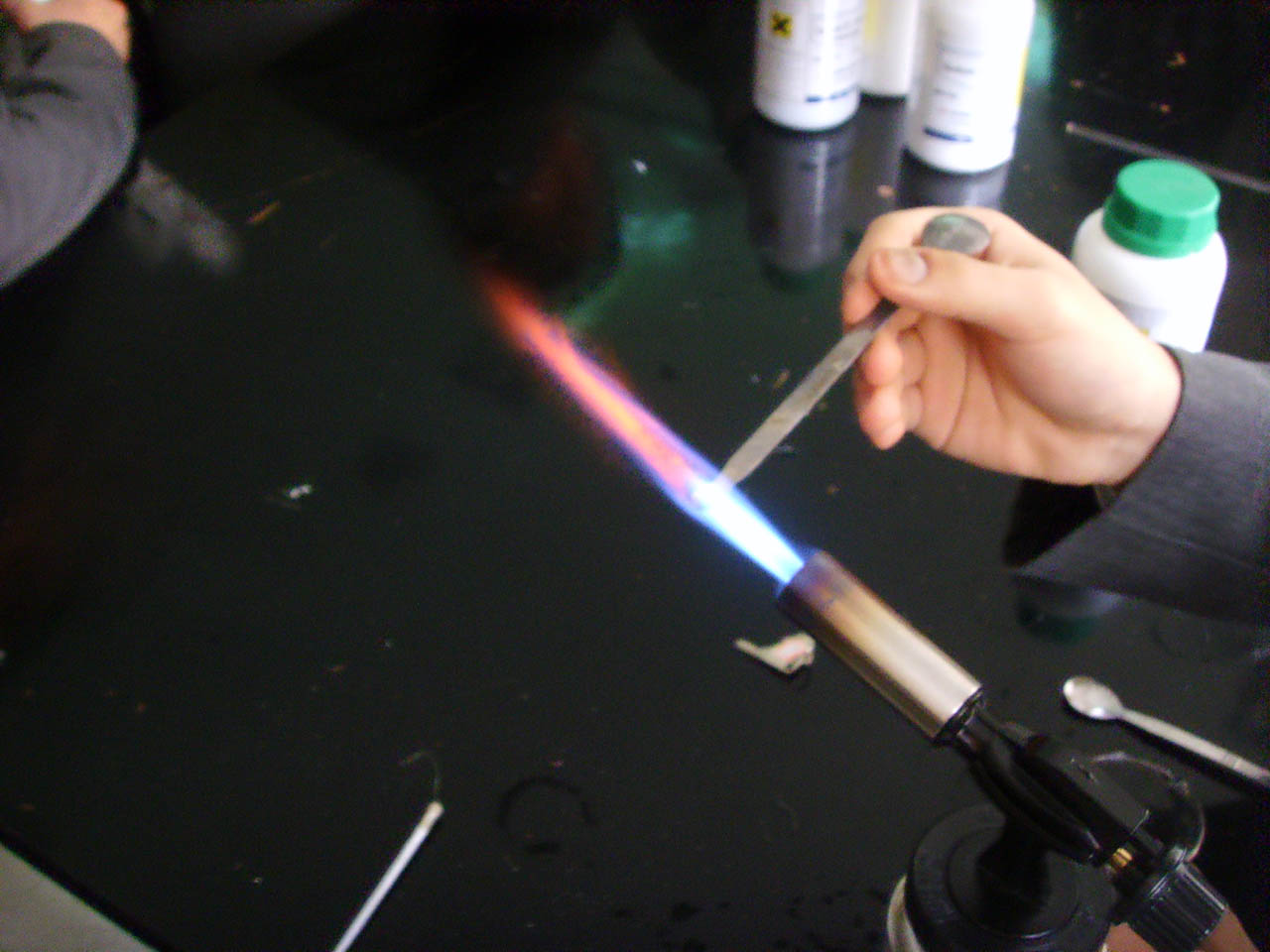 Flame Test on Potassium Chloride(KCl)